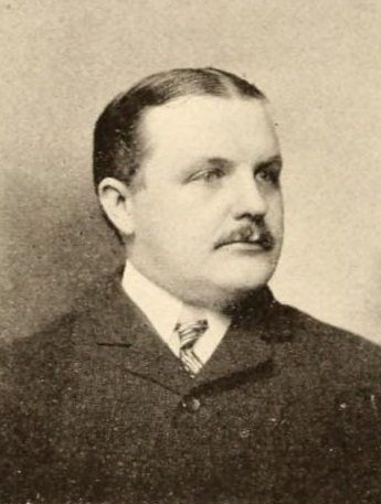 Portrait of New York assemblyman Josiah T. Newcomb